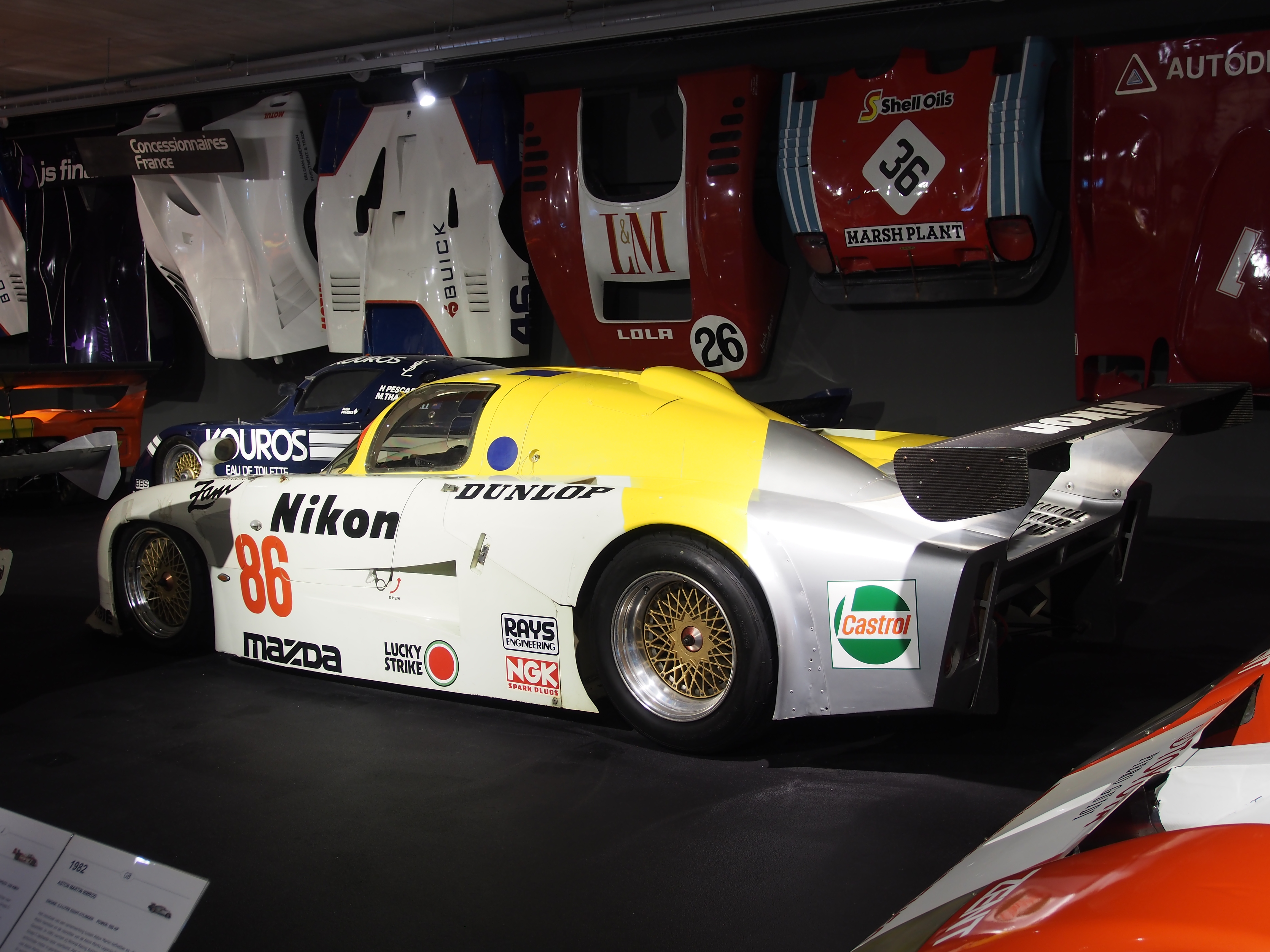 1985 Mazda 737C photographed at the Louwman museum.